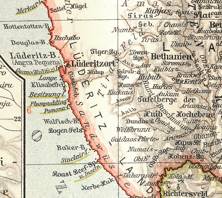 German South-West Africa: Lüderitzland (1905)